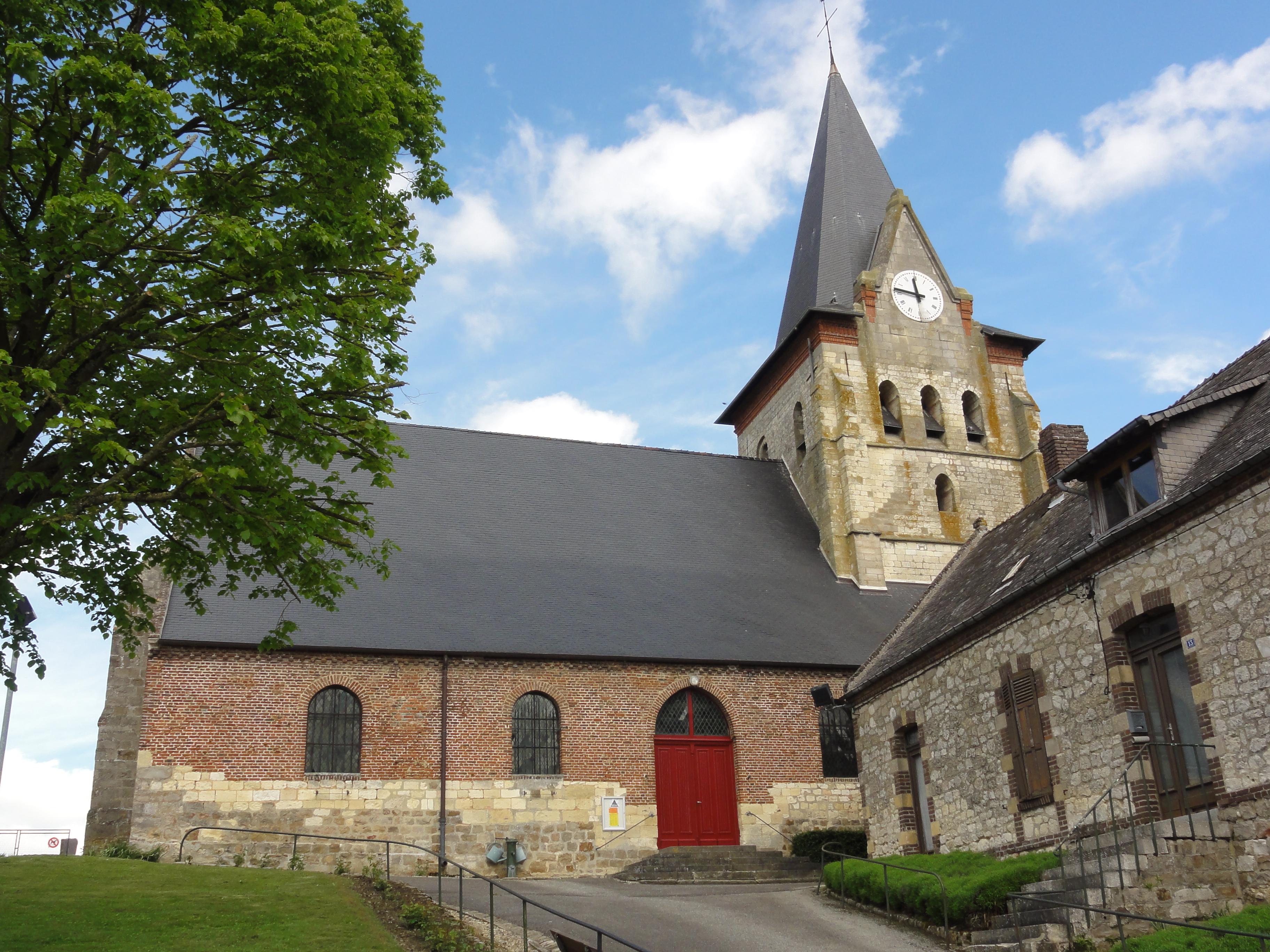 Dercy (Aisne) église